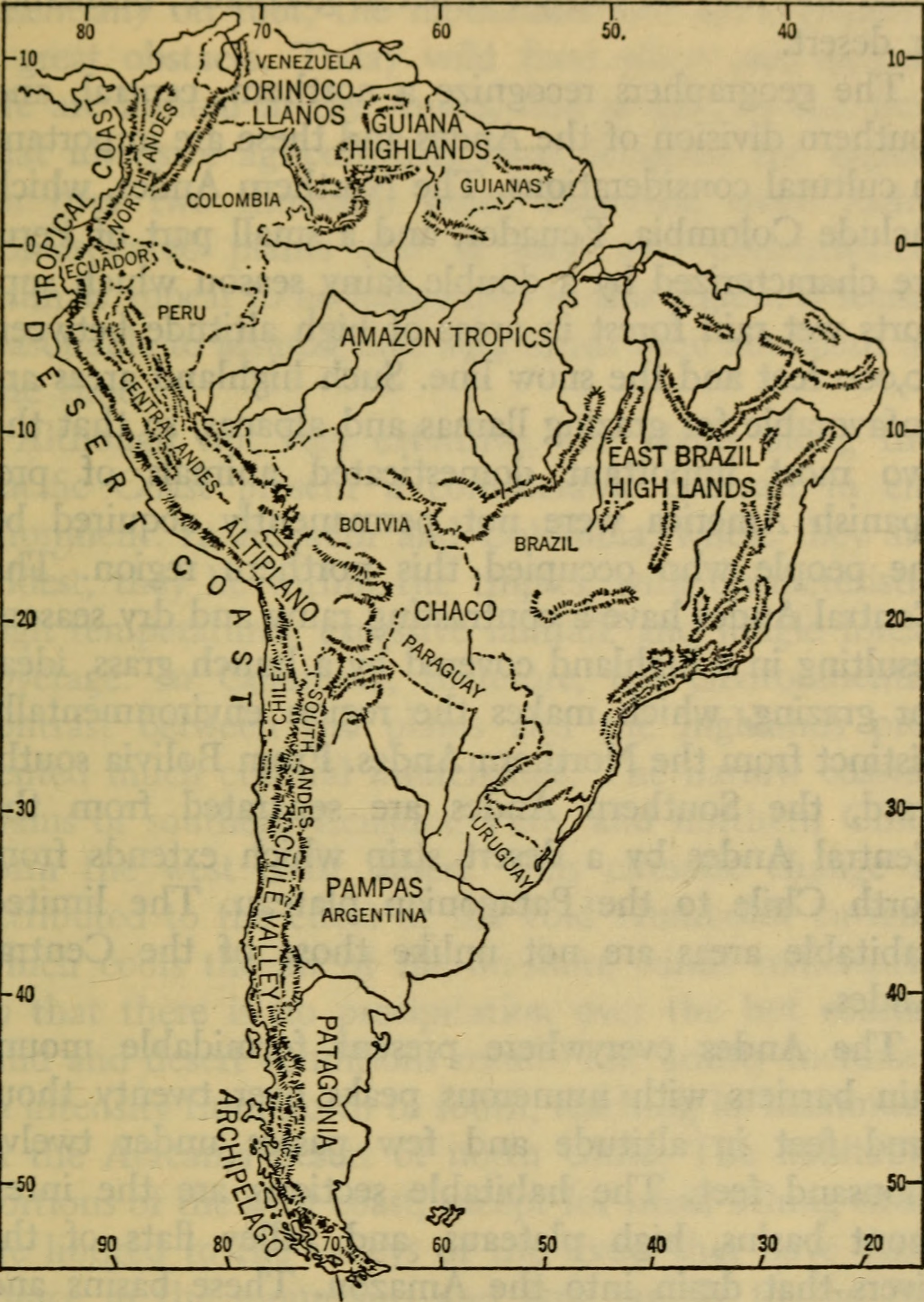 Title: Andean culture history Year: 1964 (1960s) Authors: Bennett, Wendell Clark, 1905-1953; Bird, Junius Bouton, 1907-1982 Subjects: Incas; Indians of South America Publisher: Garden City, N. Y. , Published for the American Museum of Natural History [by Natural History Press] Text Appearing Before Image: The Setting Text Appearing After Image: Fig. 1. Environmental regions of South America. chains in Peru, expand again to a pair in Bohvia, and narrow to a single range in Chile. Temperatures in the Andes are more or less consistent, reflecting altitude rather than latitude, so that most sections are cool to cold during the whole year, although freezing tempera- tures are rare in the habitable areas. Although trees grow in some sections, much of the region is unfor